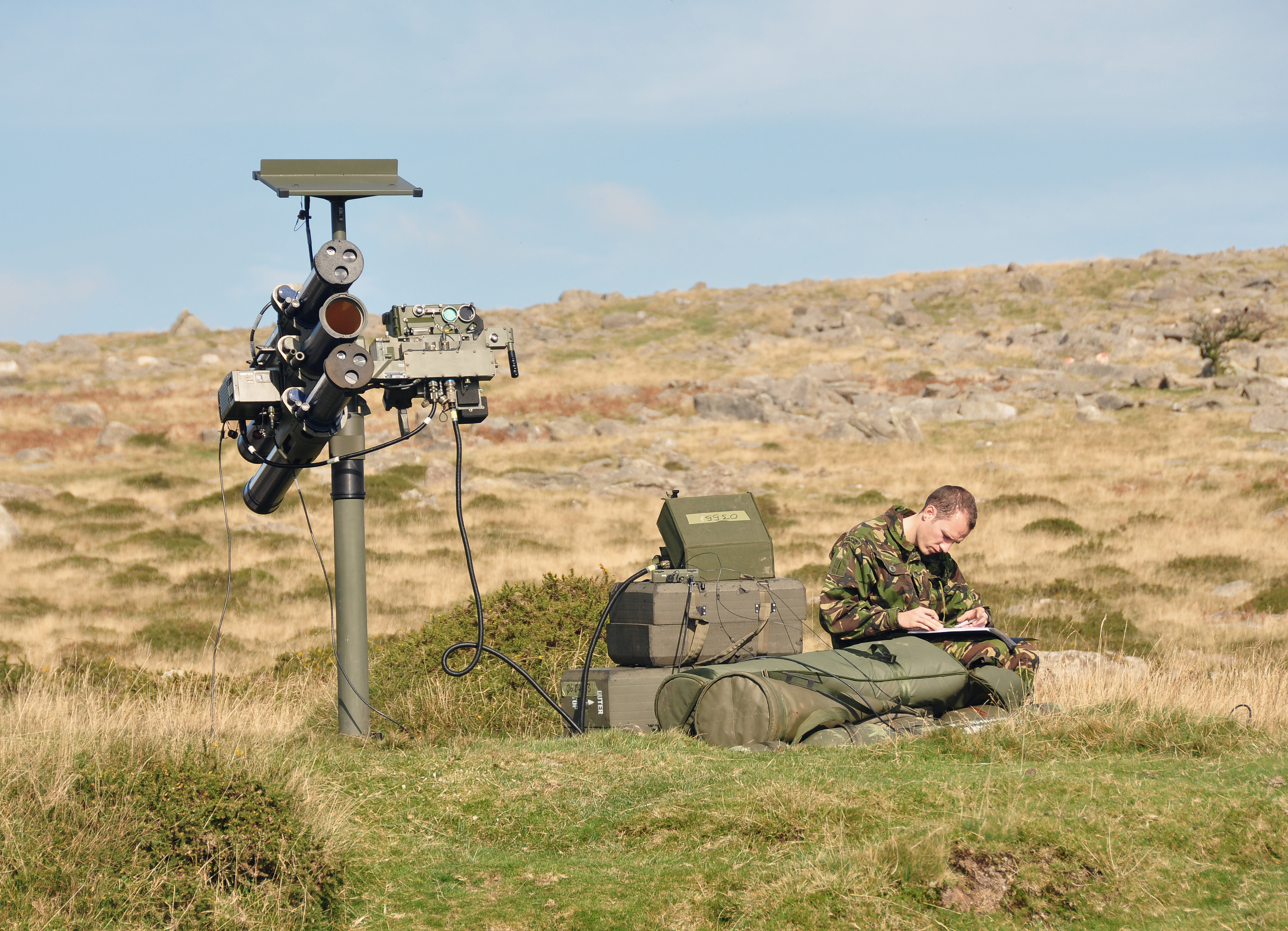 A Starstreak surface-to-air missile launcher set up on western Dartmoor during a Royal Marine ADT exercise there.